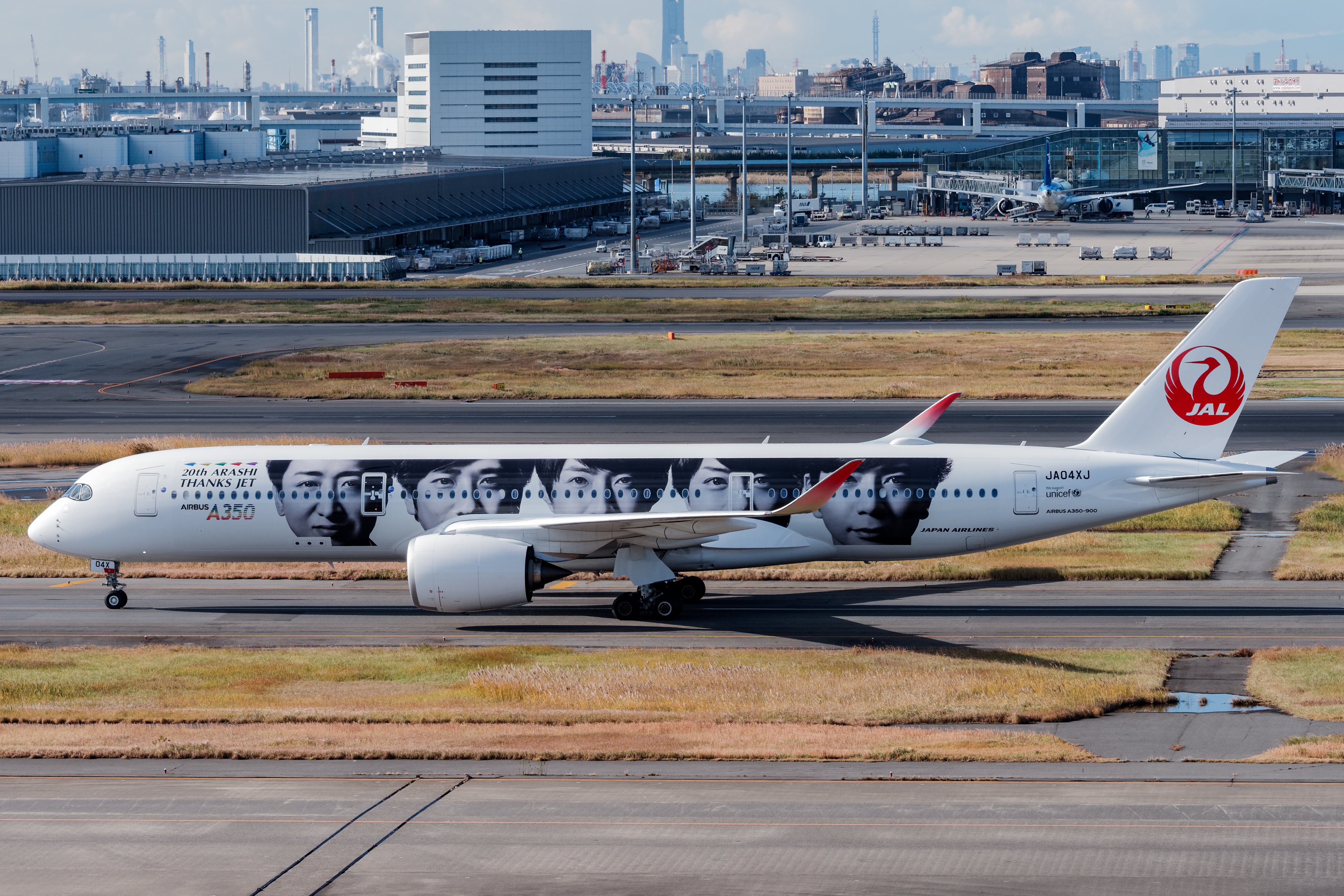 Japan Airlines Airbus A350-900 JA04XJ